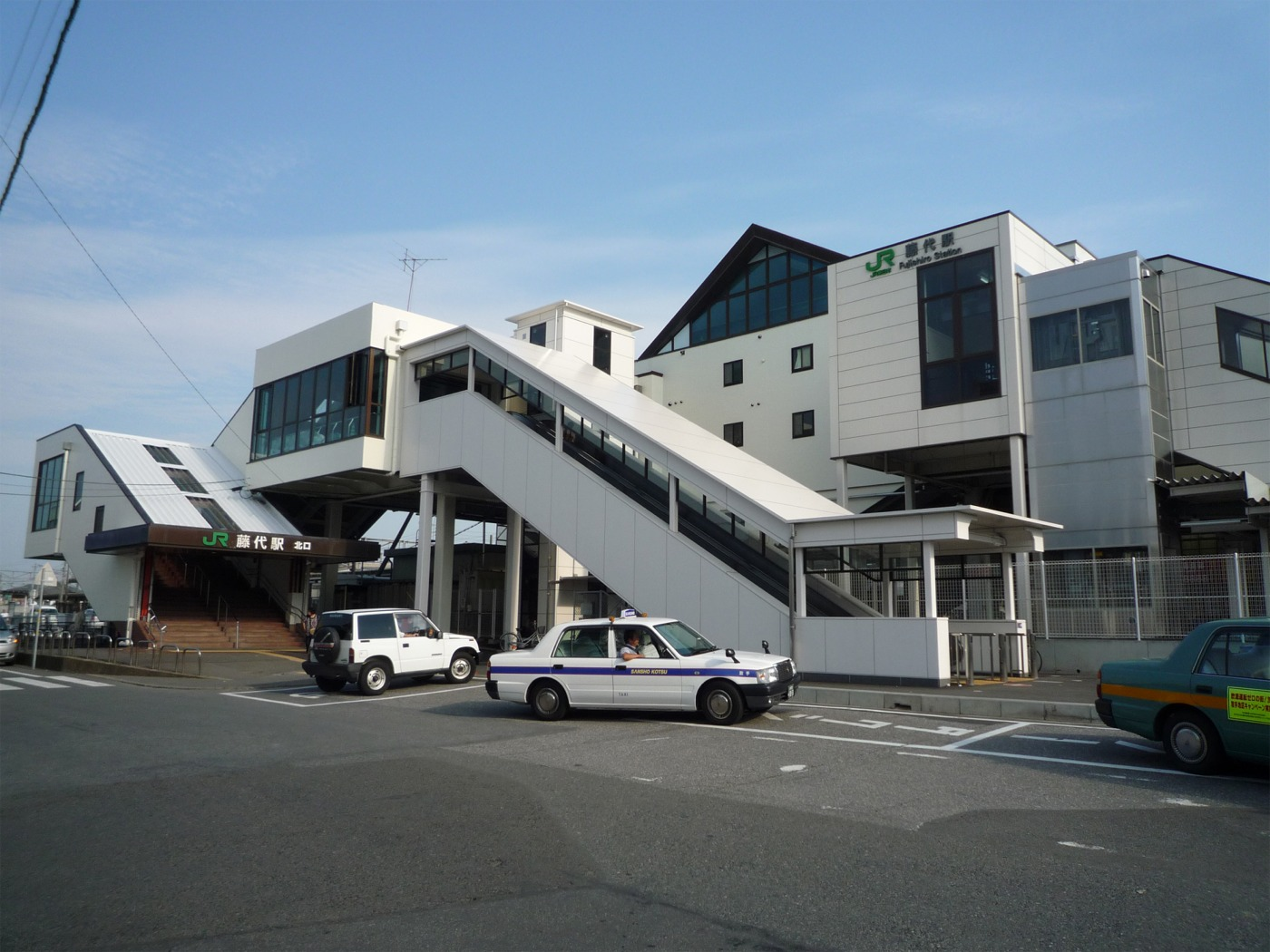 East Japan Railway Company,Joban Line,Fujishiro station.